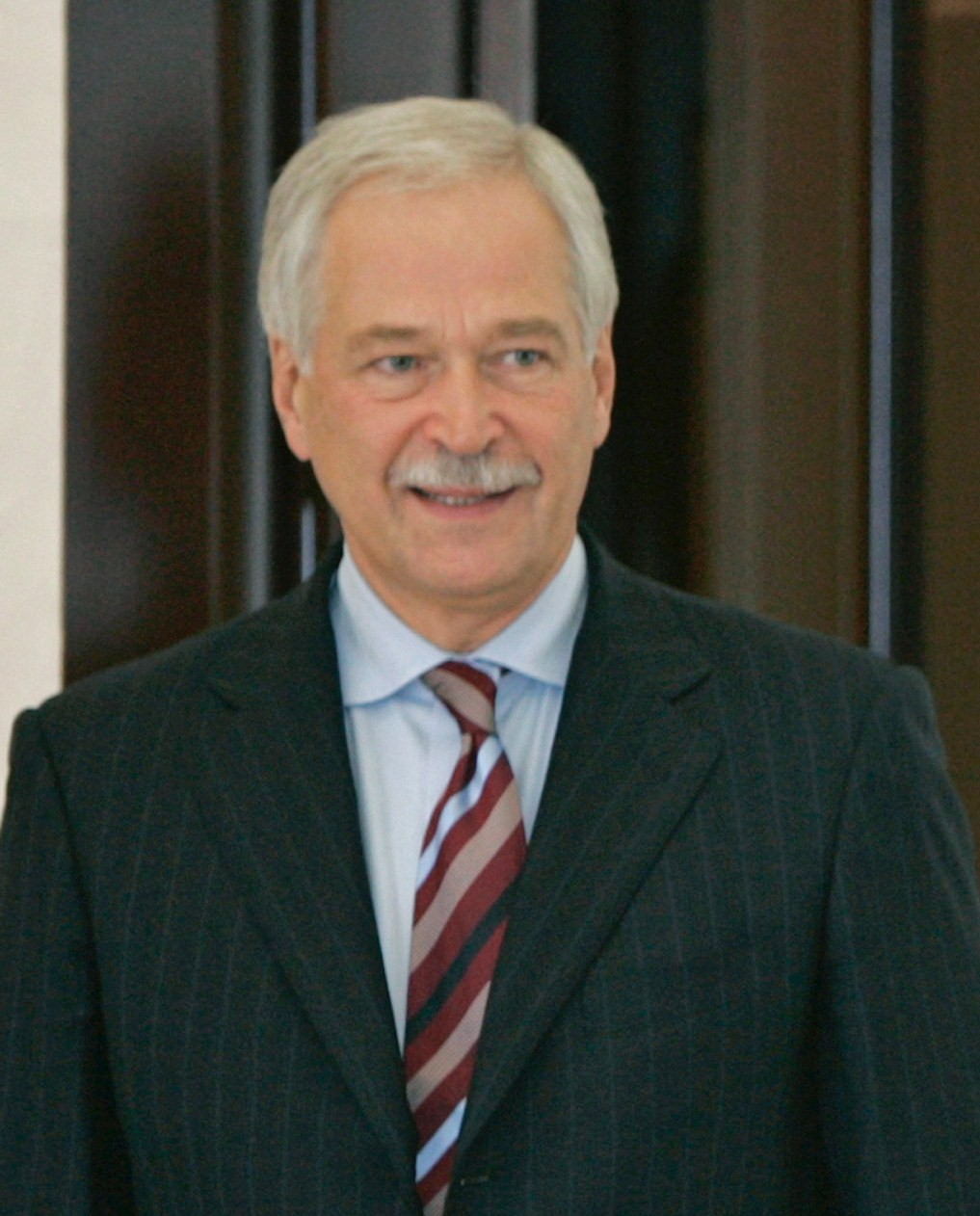 Boris Gryzlov, Russian politician